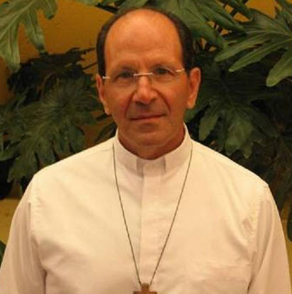 Father Alejandro Solalinde of Mexico